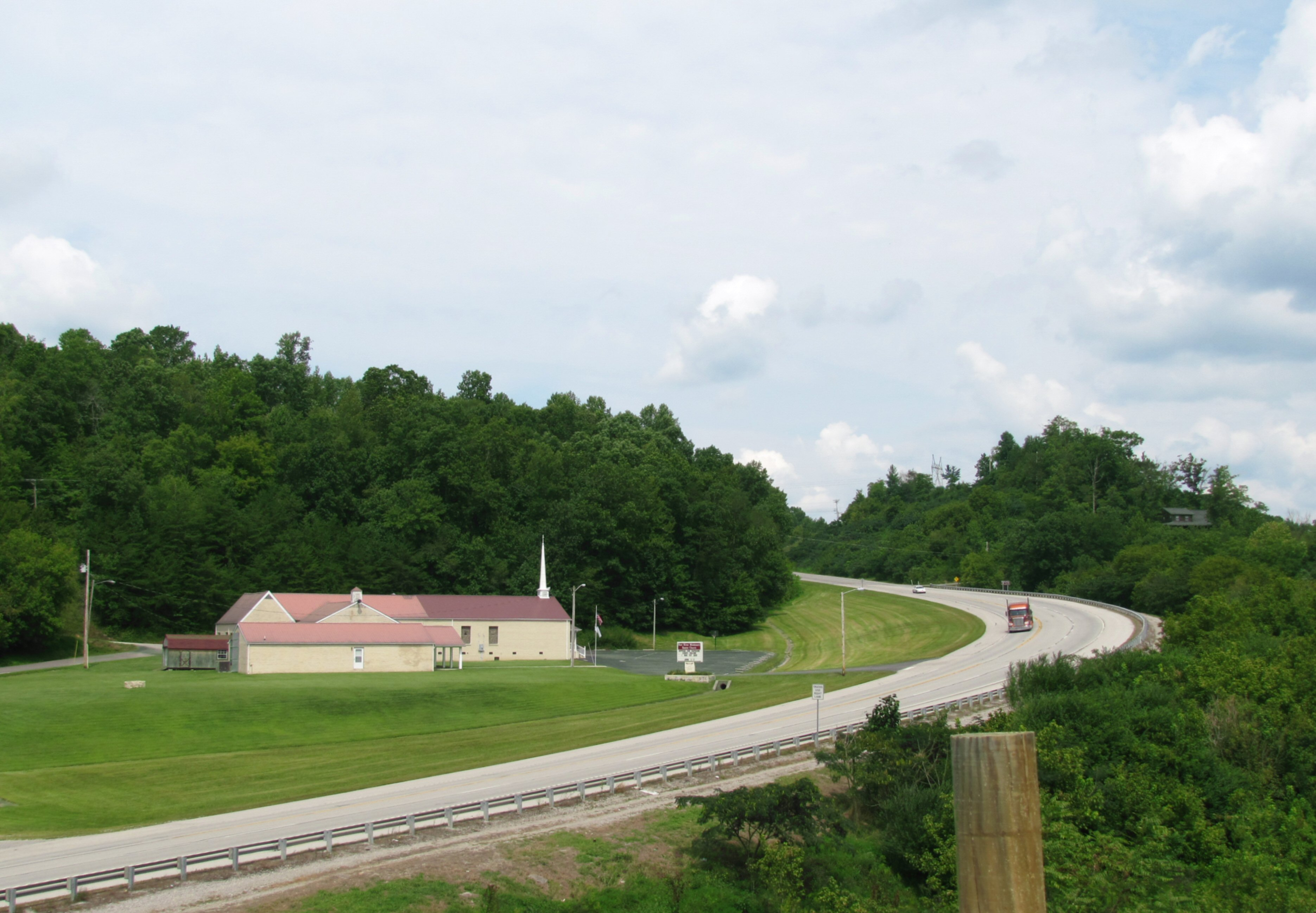 U.S. Route 27 south of Huntsville in Scott County, Tennessee, United States.